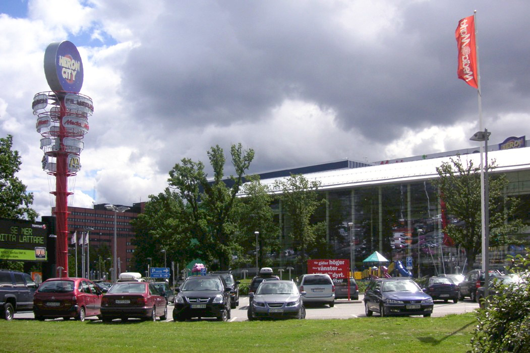 Heron City i Huddinge